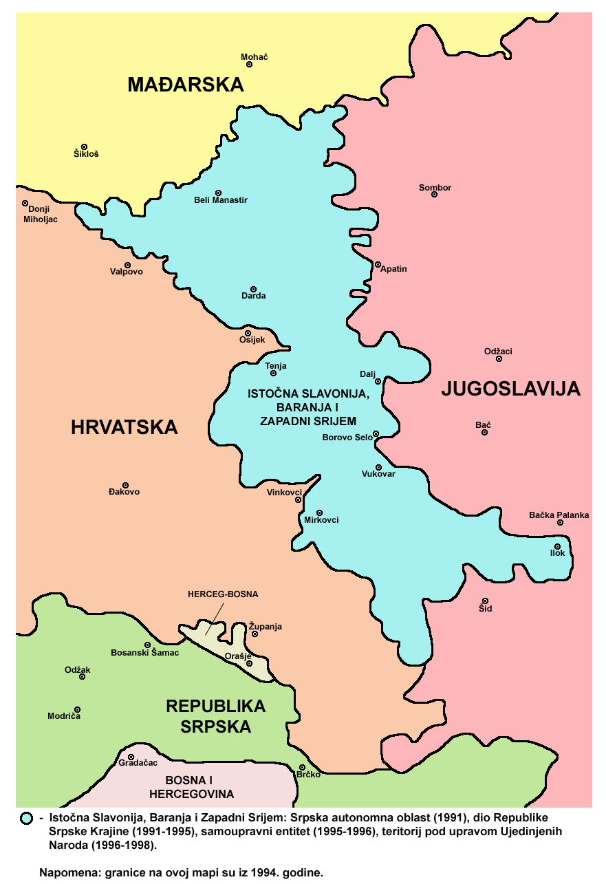 Map of the Eastern Slavonia, Baranja and Western Syrmia - Croatian language version.